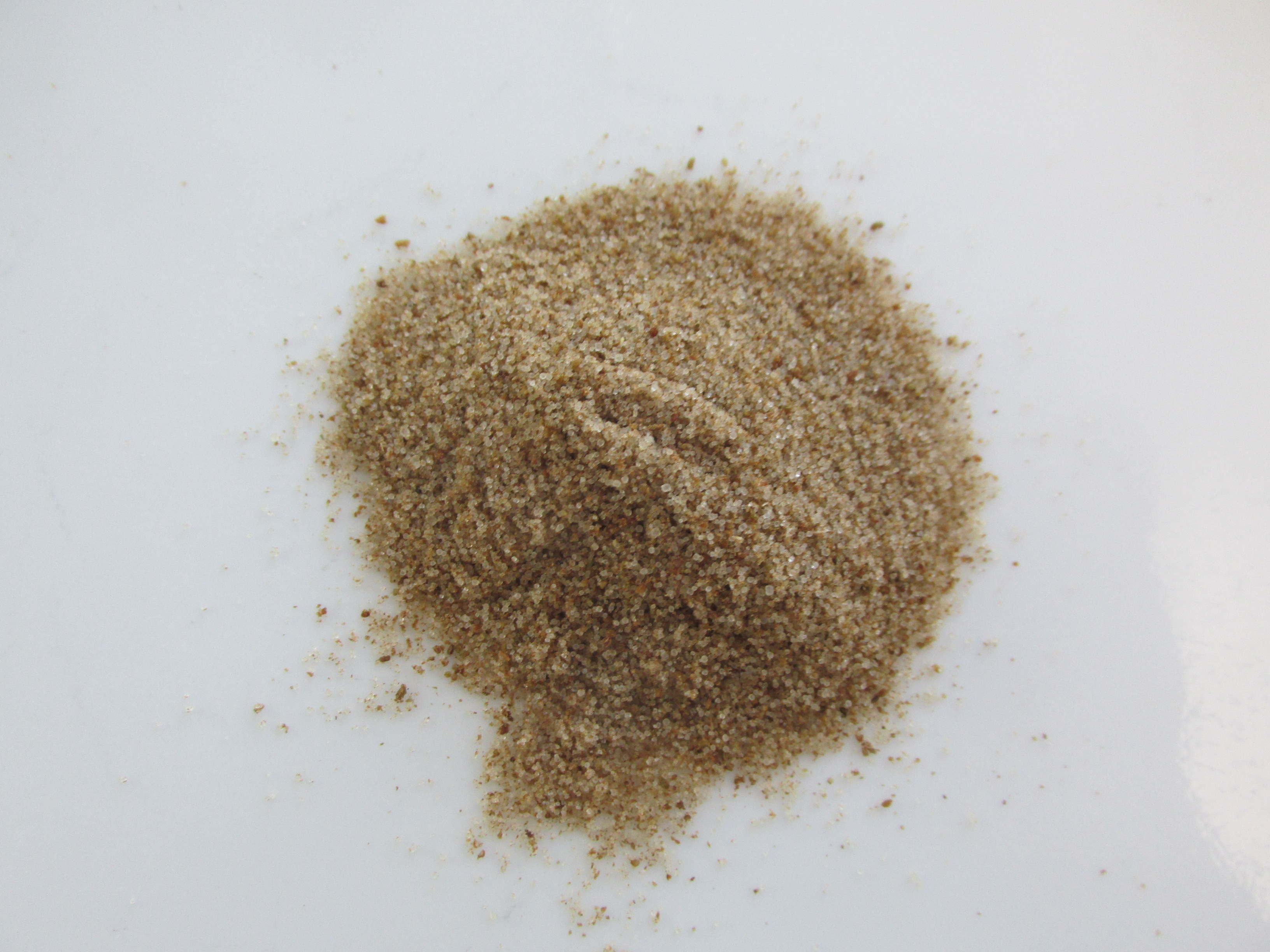 Celery Salt, Penzeys Spices, Arlington Heights Massachusetts